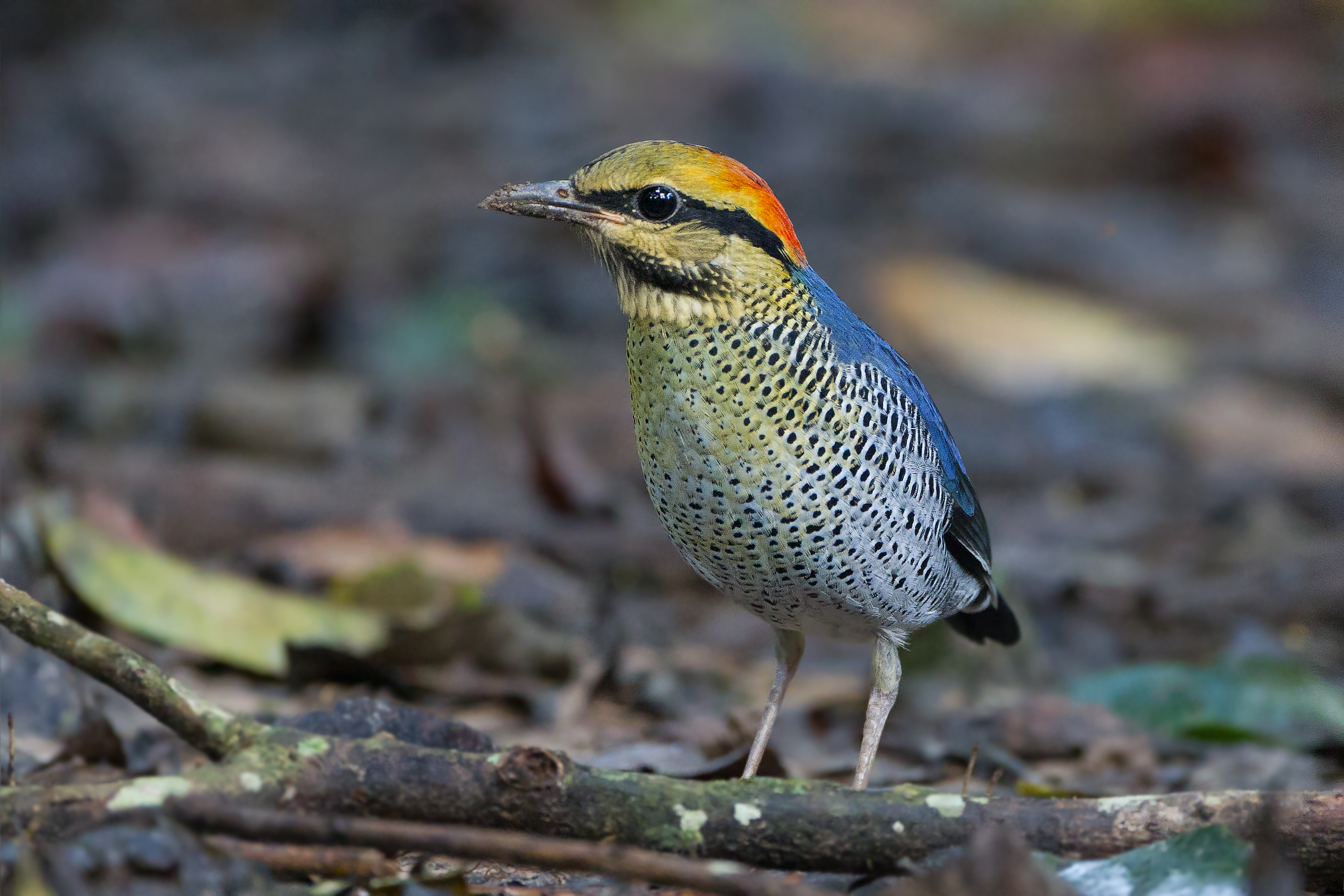 Blue Pitta (Pitta cyanea), Khao Yai National Park, Nakhon Ratchasima, Thailand